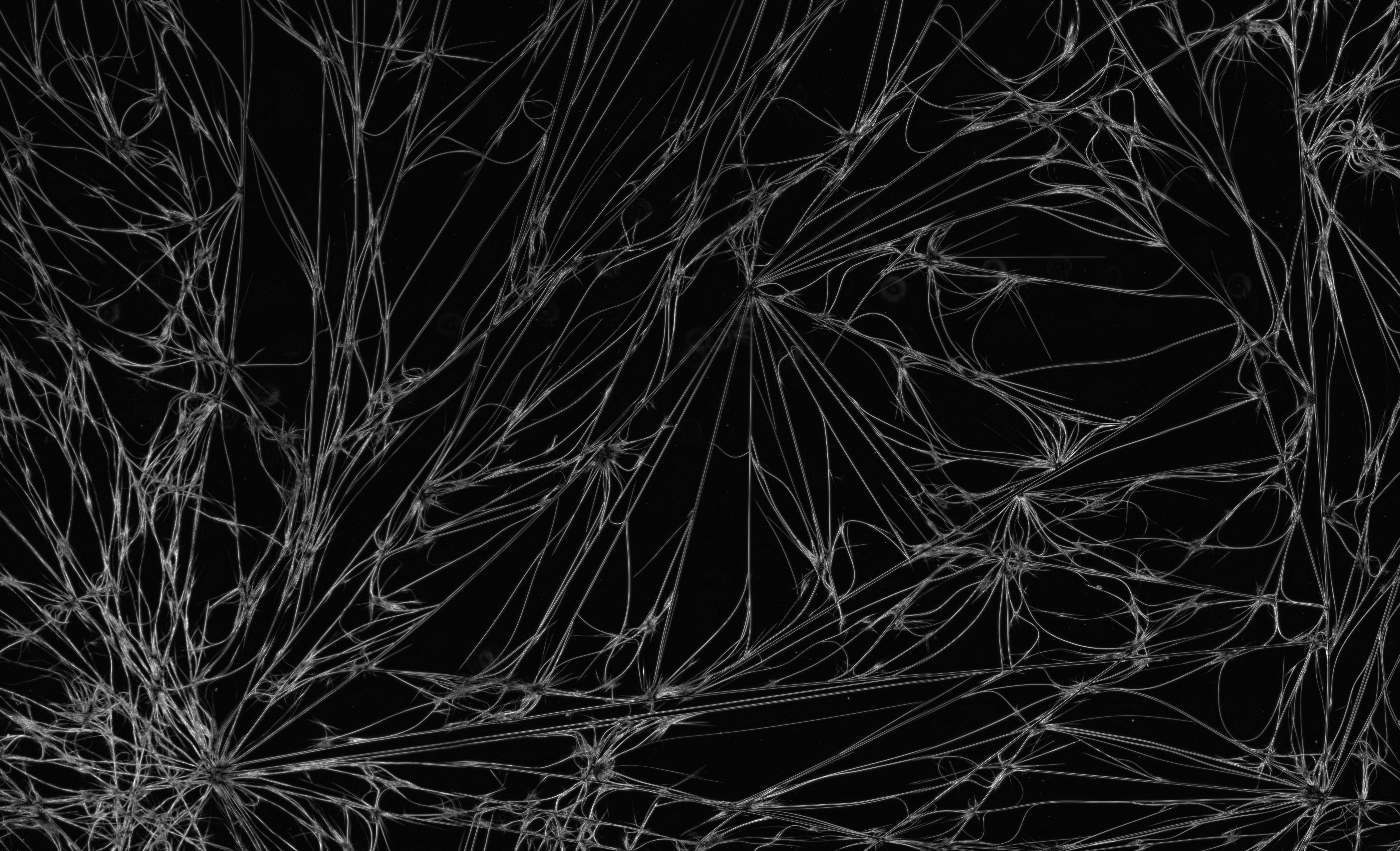 Fibrous caffeine crystals as viewed by dark field light microscopy. Points where nucleation occurred are clearly visible; nucleation occurred at the points the fibrous crystals radiate out from. 1.559 μm per pixel, the entire image covers an area of approximately 11 x 7 mm.